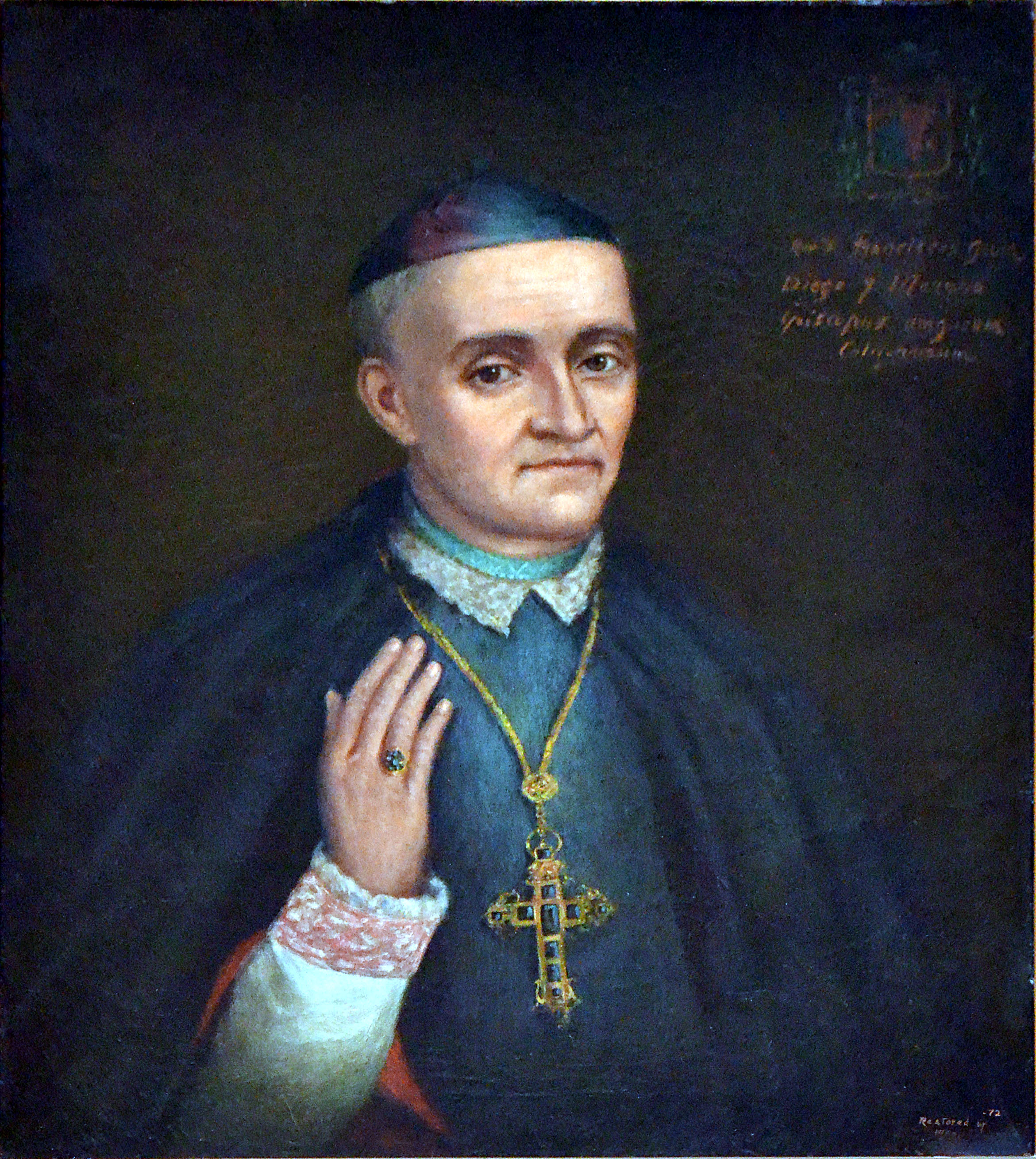 Francisco García Diego y Moreno OFM, (1785—1846) — portrait painting in the collection of the Mission San Fernando Rey de España, Los Angeles. In 1840 became the first bishop of the new Diocese of Alta California, a Mexican territory. Born in Lagos, Spanish Viceroyalty of New Spain (colonial México); died at Mission Santa Barbara, Mexican Alta California Mexican territory.